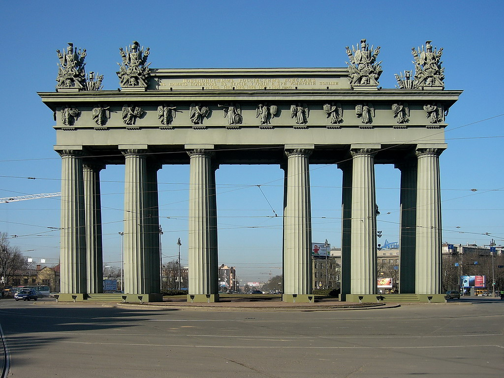 Moscow Triumphal Gate